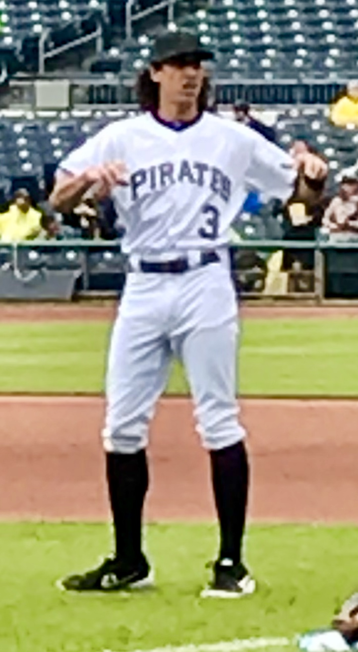 Cole Tucker